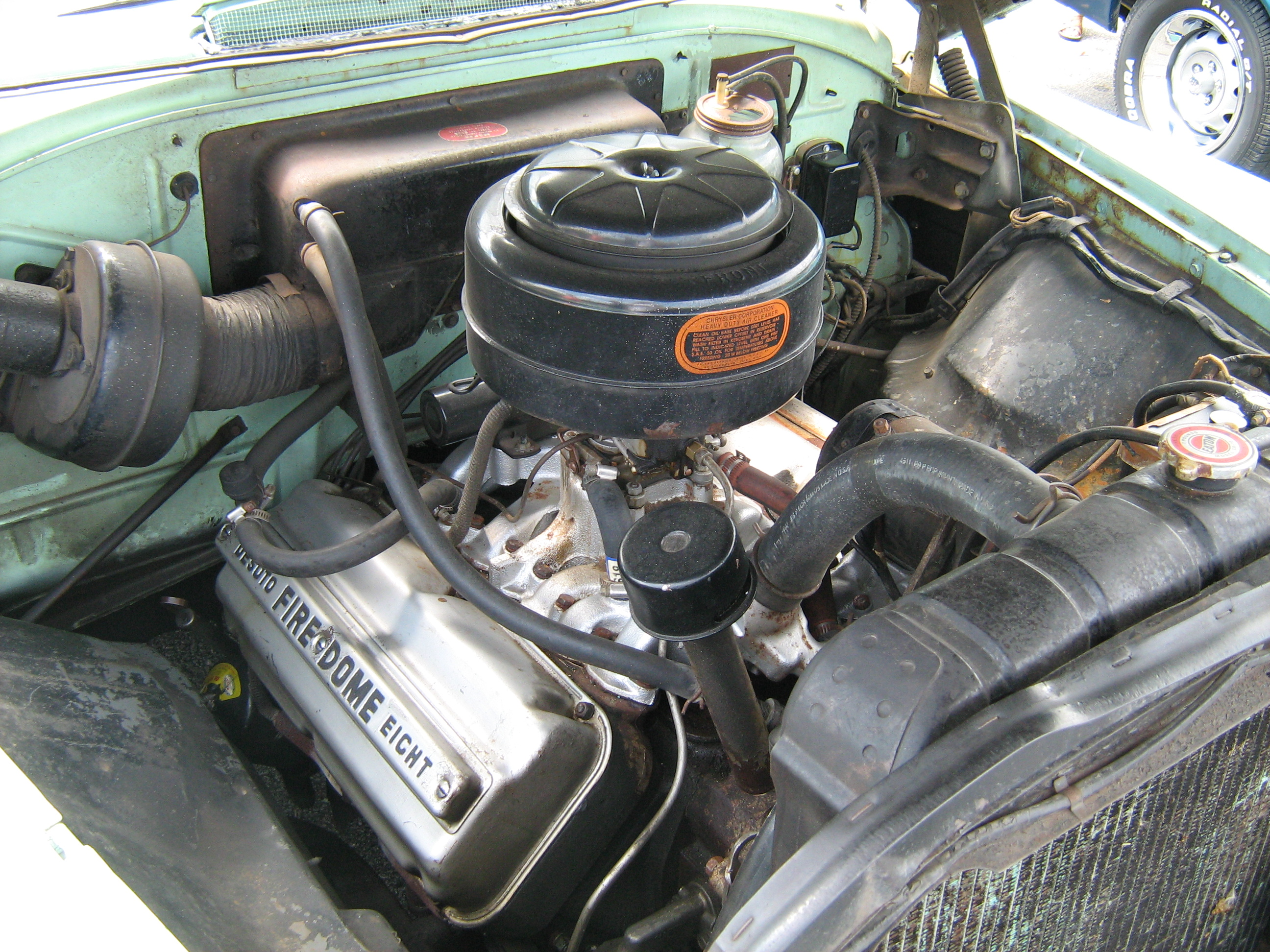 "Firedome" V8 engine in a 1954 DeSoto four-door sedan.